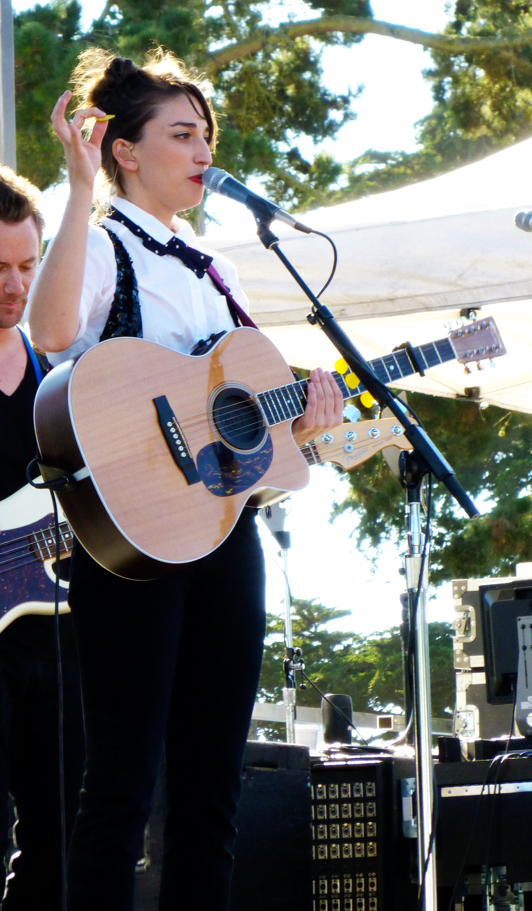 Sara Bareilles at Alice Radio's Now and Zen Fest 2010. Golden Gate Park, San Francisco, CA. September 26th, 2010.